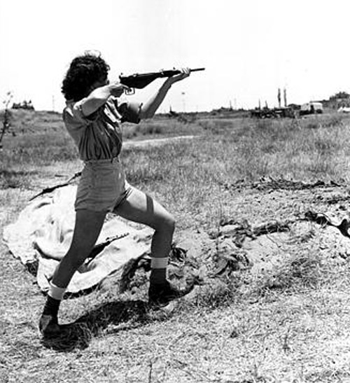 A female officer of the Haganah gives a demonstration in the handling of a Sten gun during the War of Independence.